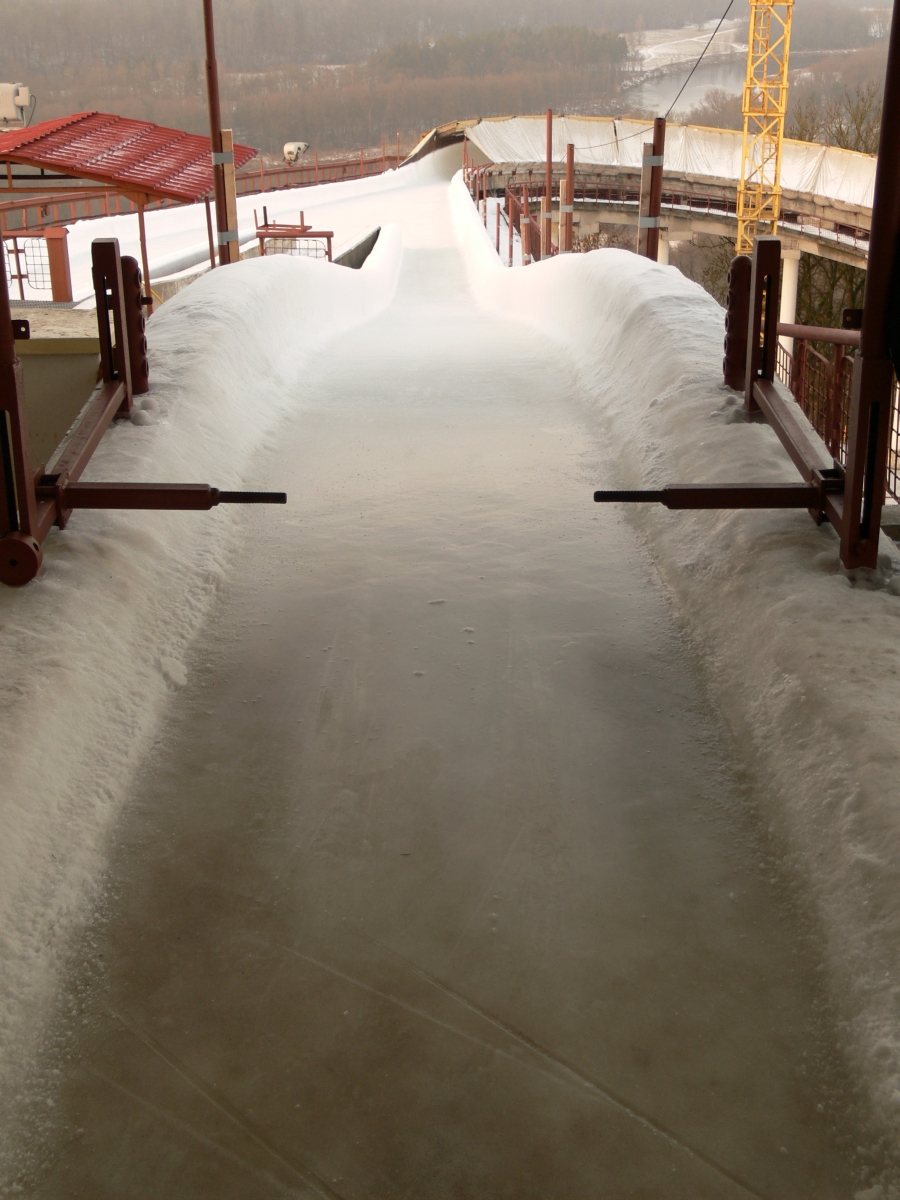 Start of the bobsleigh track in Sigulda, Latvia. Read more on Latvian blog with information about Latvia